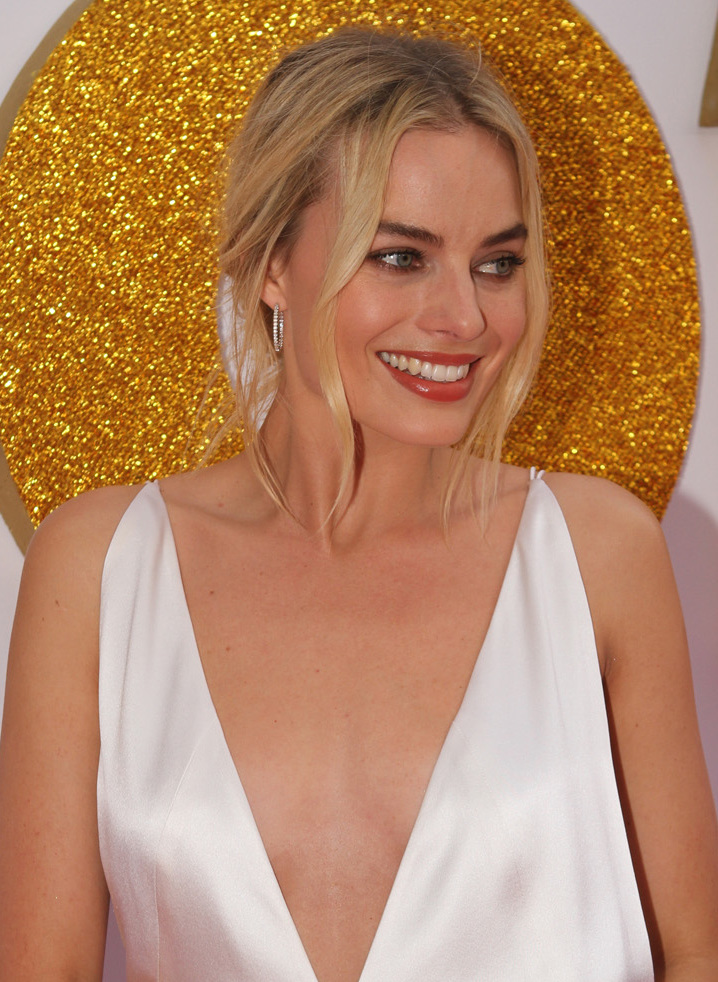 SYDNEY, AUSTRALIA - JANUARY 23 Margot Robbie arrives at the Australian Premiere of 'I, Tonya' on January 23, 2018 in Sydney, Australia photo by Eva Rinaldi